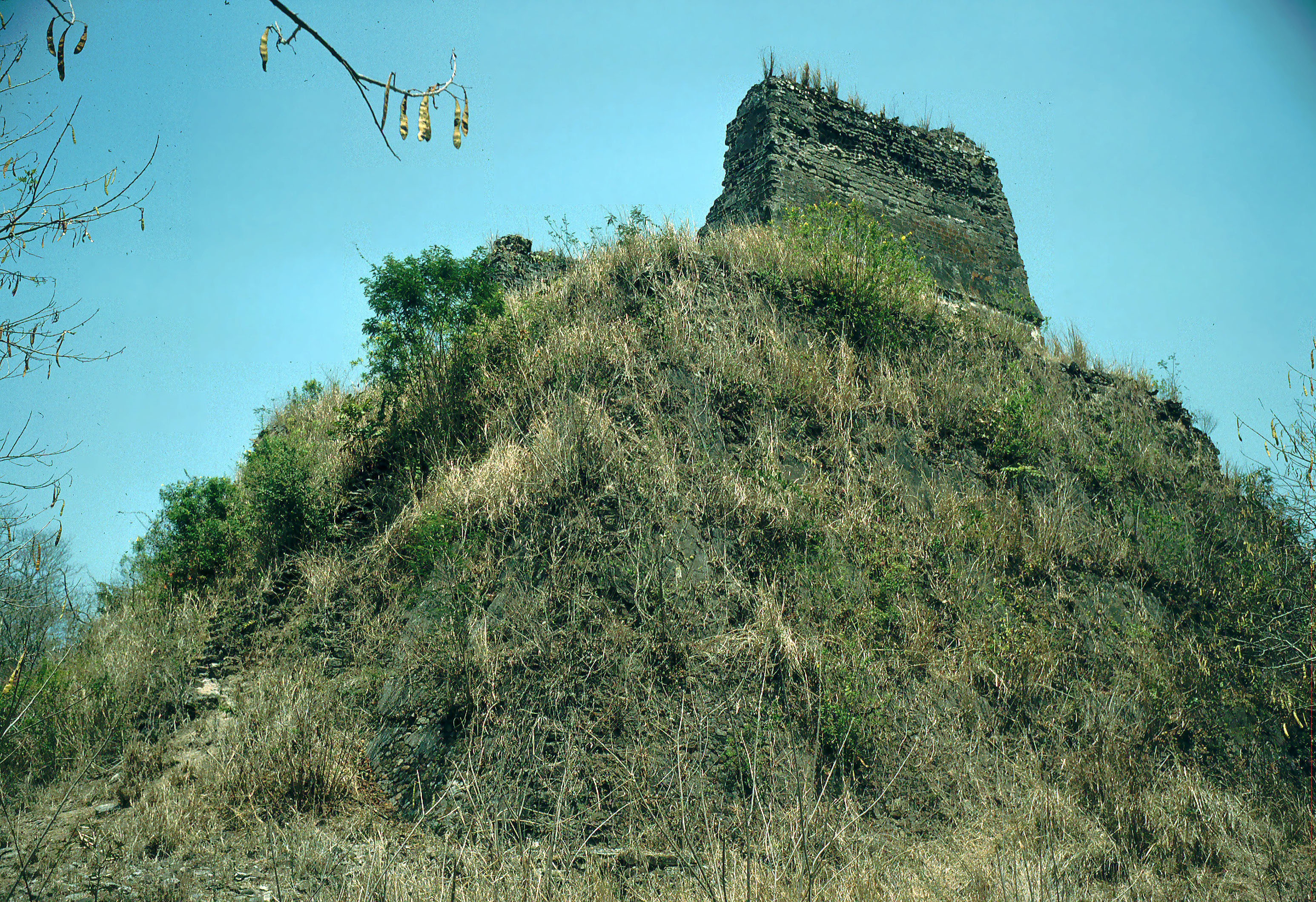 Santiago Huatusco, Veracruz, Mexico: pyramid "El Fortín".